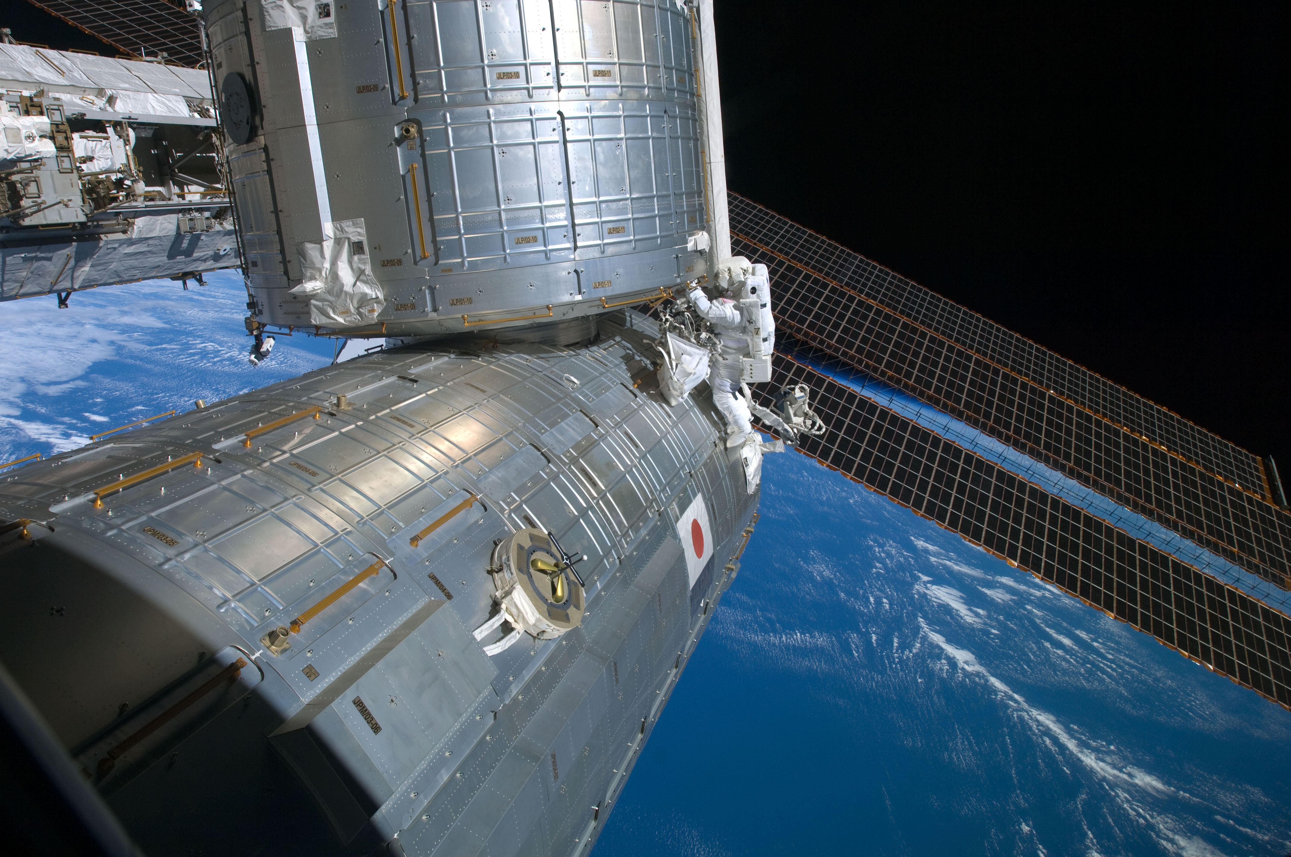 Astronaut Steve Bowen, STS-126 mission specialist, participates in the mission's fourth and final scheduled session of extravehicular activity (EVA) as construction and maintenance continue on the International Space Station. During the six-hour, seven-minute spacewalk, Bowen and astronaut Shane Kimbrough (out of frame), mission specialist, completed the lubrication of the port Solar Alpha Rotary Joints (SARJ) as well as other station assembly tasks. Bowen returned to the starboard SARJ to install the final trundle bearing assembly, retracted a berthing mechanism latch on the Japanese Kibo Laboratory and reinstalled its thermal cover. Bowen also installed a video camera on the Port 1 truss and attached a Global Positioning System antenna on the Japanese Experiment Module Pressurized Section.